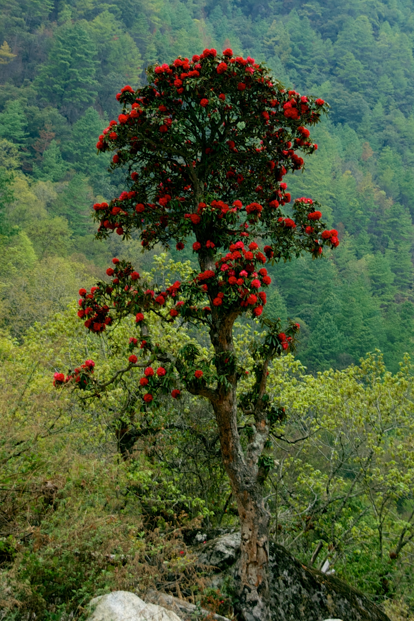 A tall Rhododendron arboreum in Eastern Bhutan, near Thrashigyangtze